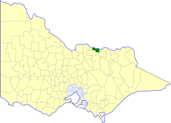 Location of the Shire of Yarrawonga within Victoria.